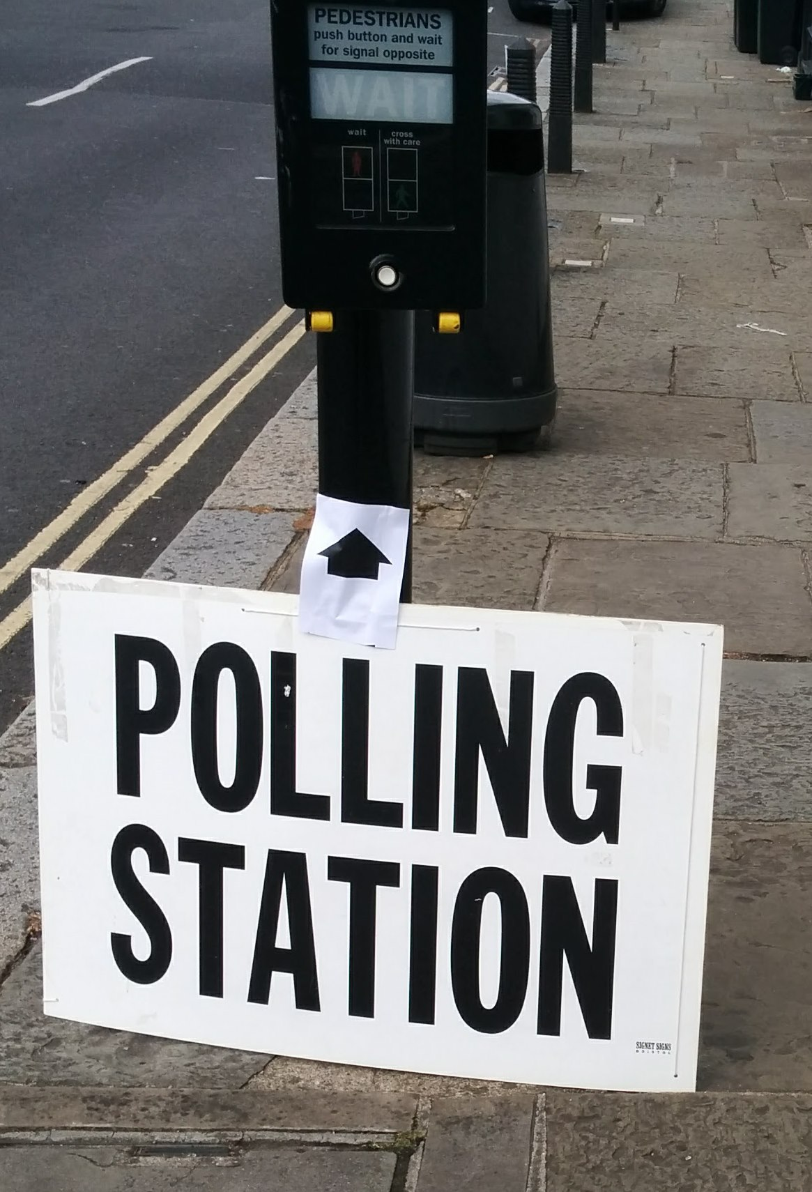 A sign on Chetwynd Road directing people to a new polling station in the Holborn & St Pancras constituency during the 2017 UK general election